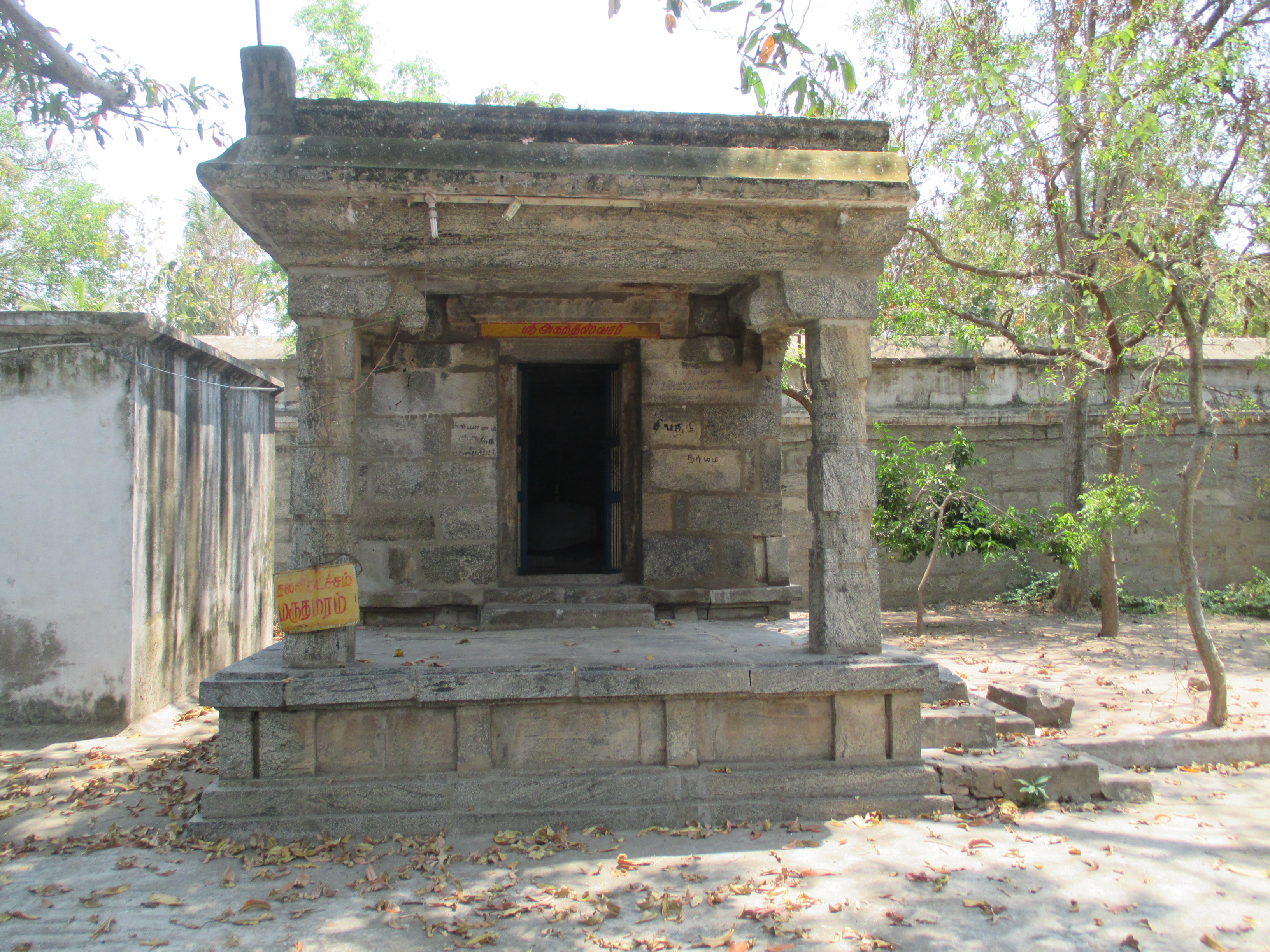 Maruntheeswarar Temple, T.Idayar